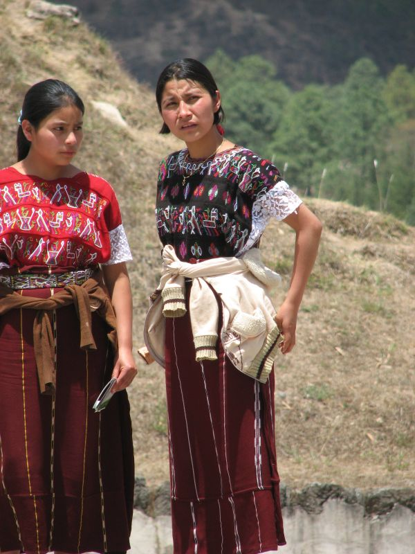 Two Highland Maya women in traditional dress